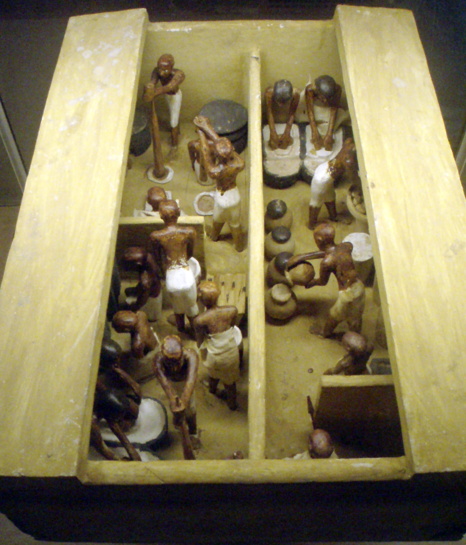 A funerary model of a bakery and brewery, dating the 11th dynasty, circa 2009-1998 B.C. Painted and gessoed wood, originally from Thebes.